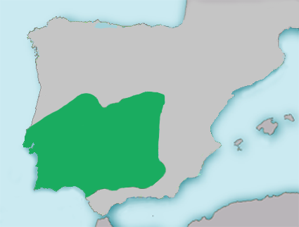 Distribution map of Chondrostoma lemmingii (now Iberochondrostoma lemmingii) in Iberian Peninsula.